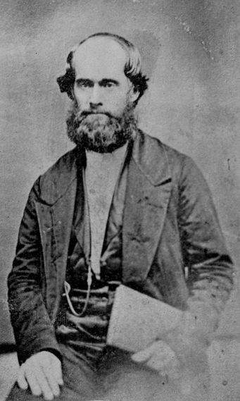 Picture of James Strang